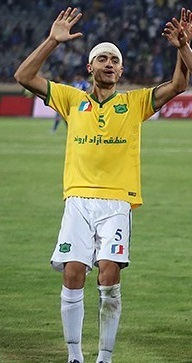 Ali Abdollahzadeh